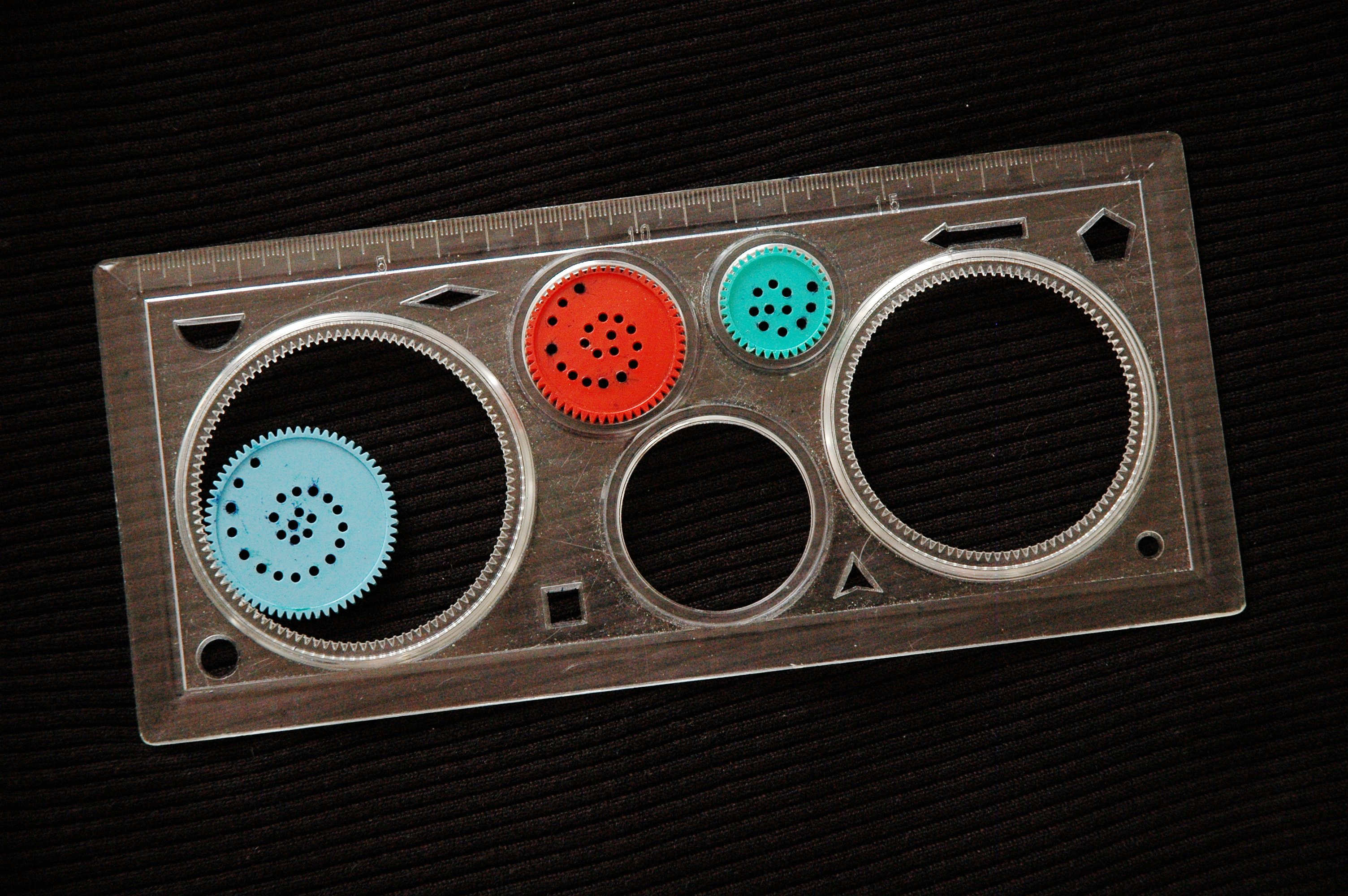 Spirograph, a plastic toy used to draw curves(hypotrochoids). Picture taken from a specimen produced and sold in the USSR (ОСТ 6-19-417-80 and 14МО.390.319, article НК-9) and kept in author's private collection.